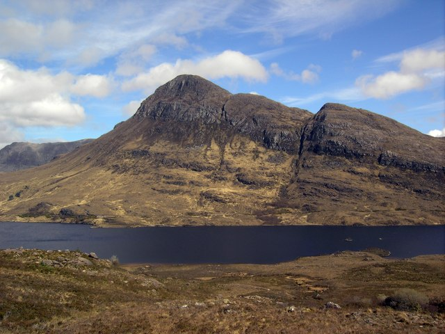 Cul Beag Cul Beag from the slopes of Beinn an Eoin.